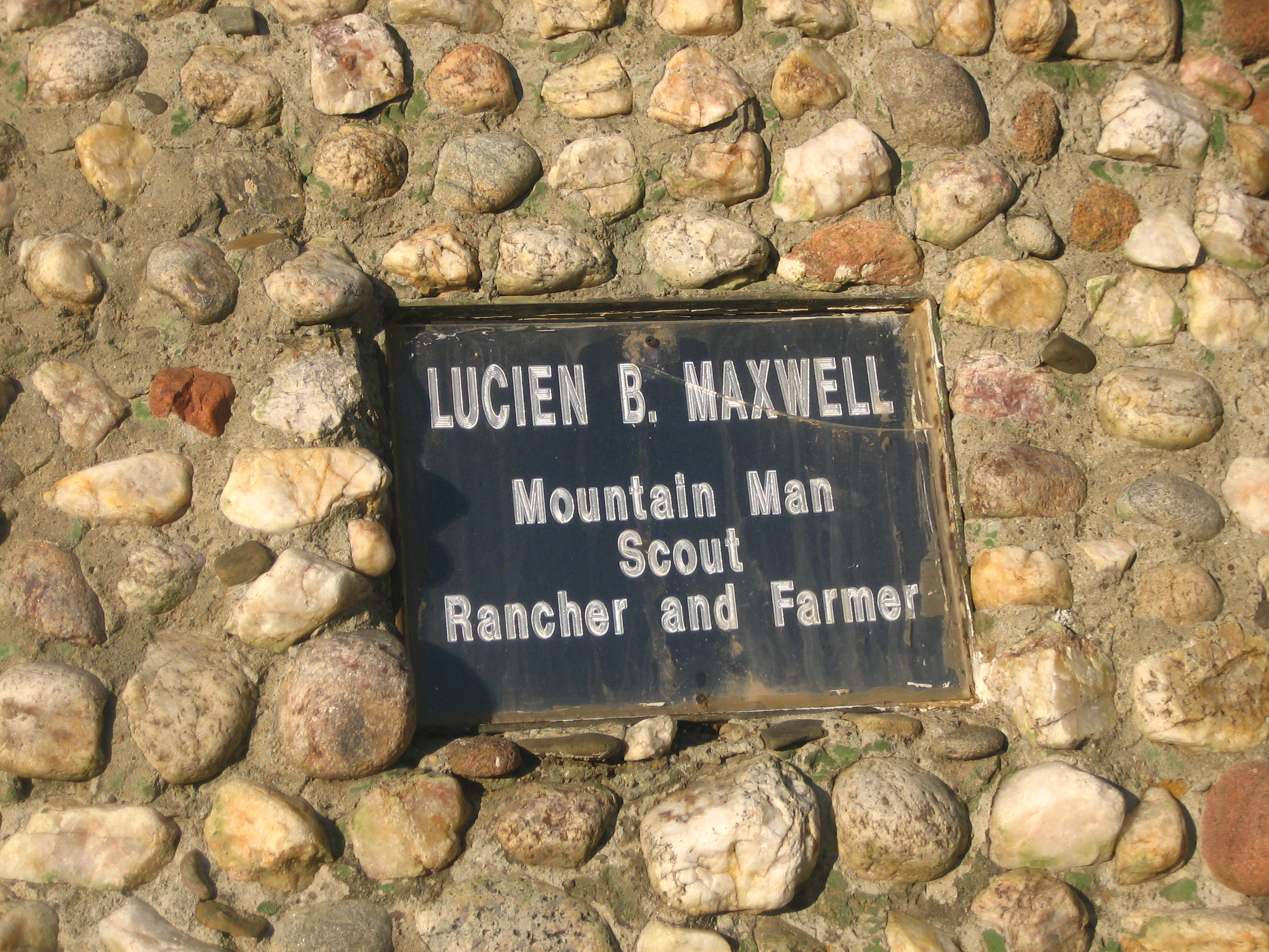 I took photo on July 14, 2008.Billy Hathorn (talk) 20:43, 18 September 2008 (UTC)